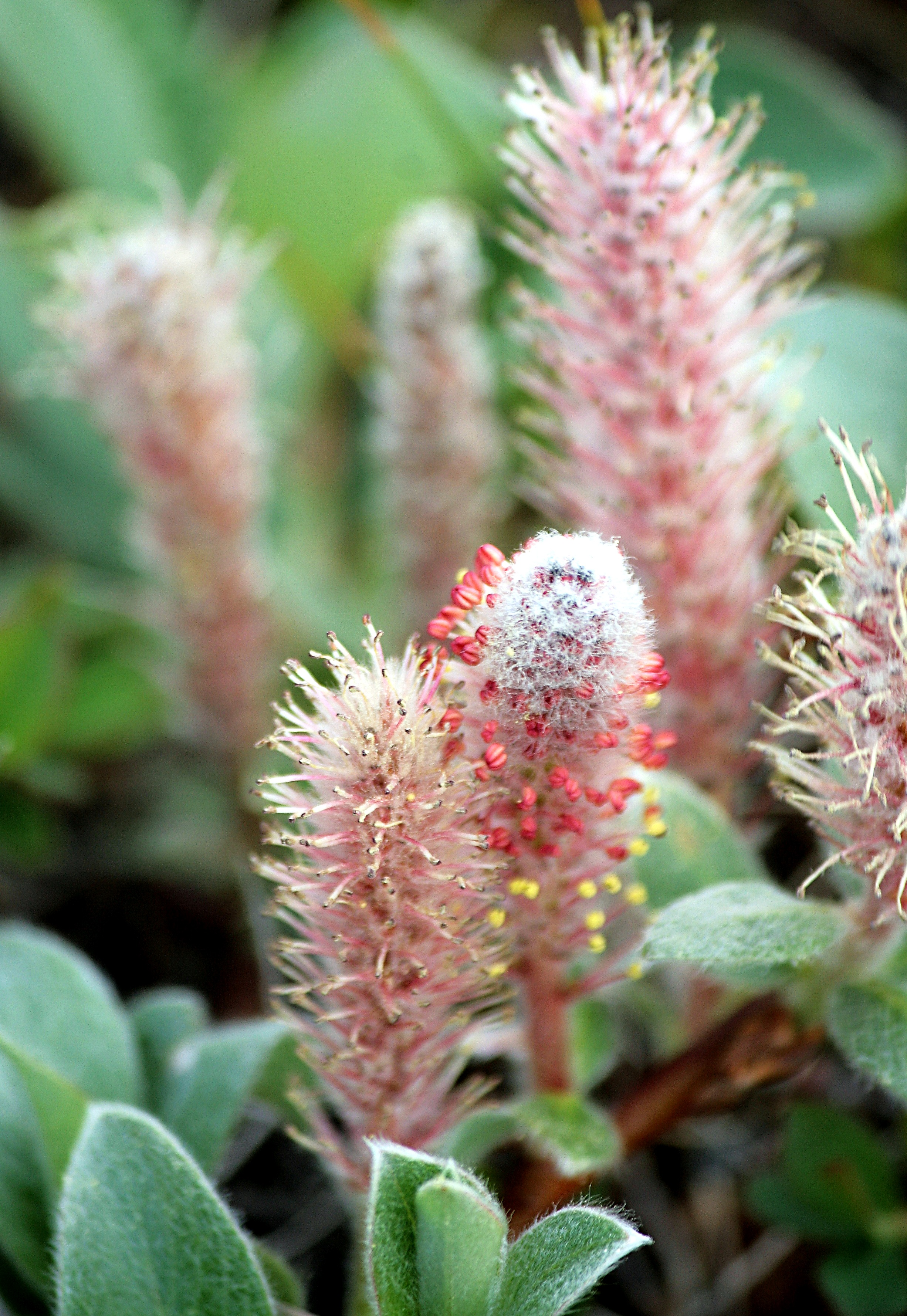 Nordisland: Arktische Weide (Salix arctica)